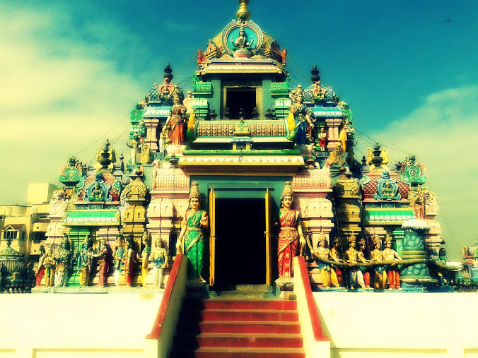 Ashtalakshmi Kovil / Ashta lakshmi Temple is one of the beautiful temples of Chennai.Its main deity is of Lord Perumal (Vishnu) and Godess Lekshmi.Another main fact of the temple is , it has deity of eight avatars oh Godess Lekshmi . It is located in sea-shores of Bay-of-Bengal in Besant Nagar Area of Chennai.